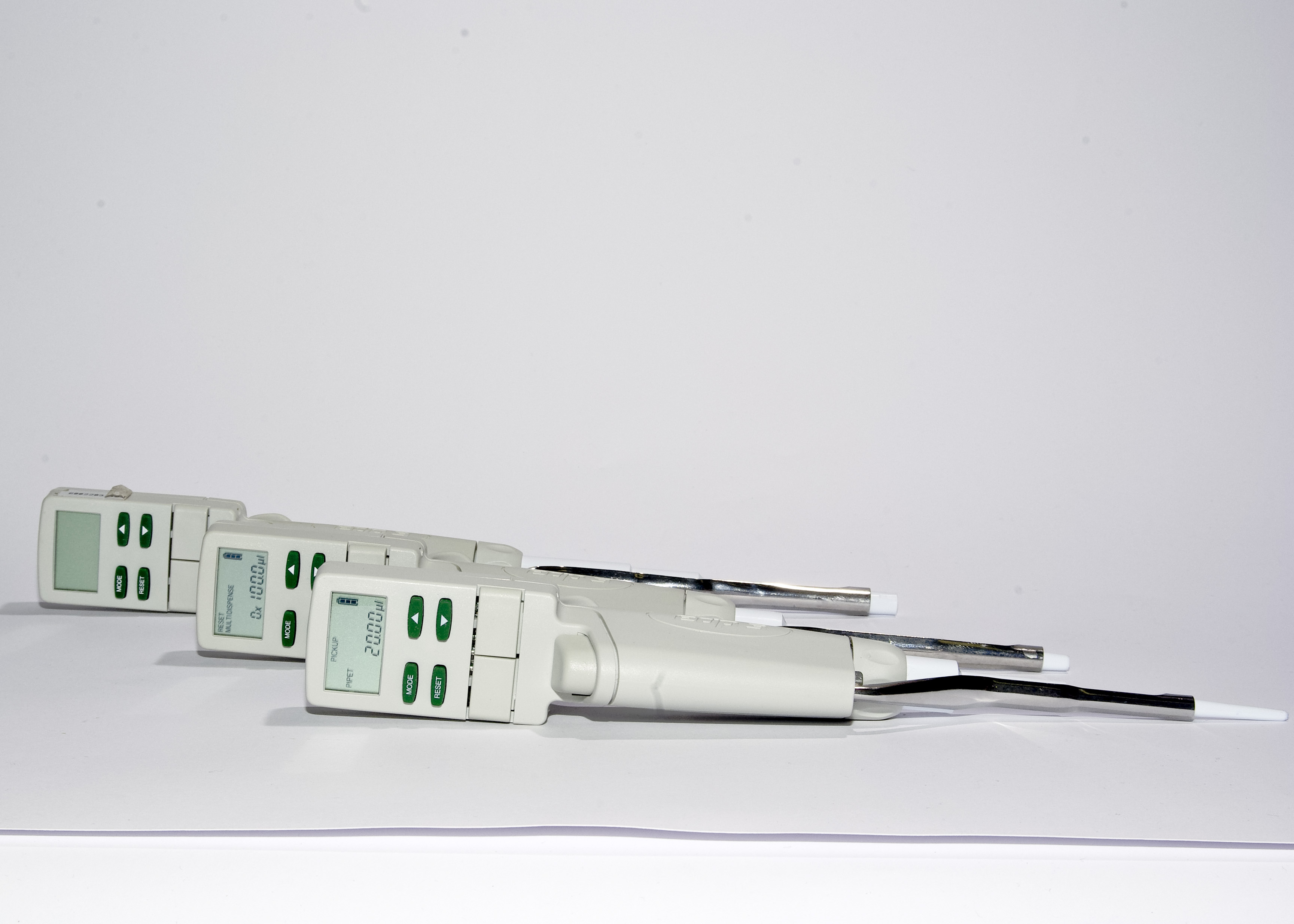 A set of electronic automatic pipettes